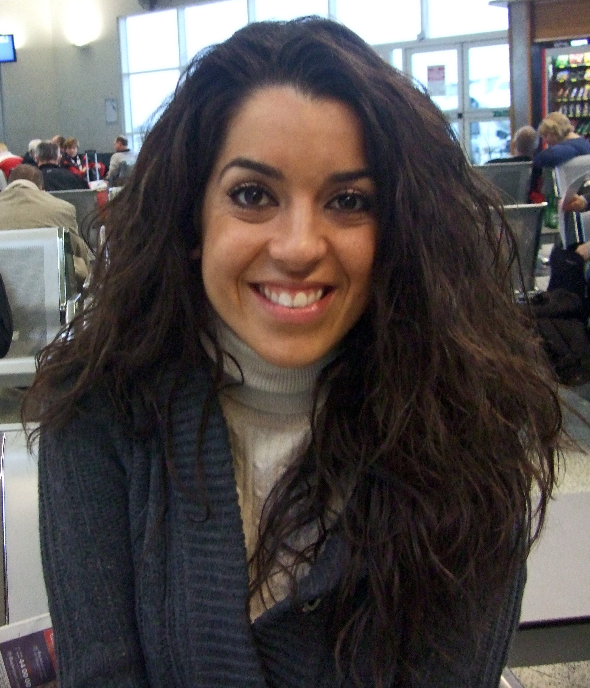 Ruth Lorenzo in Dublin Airport